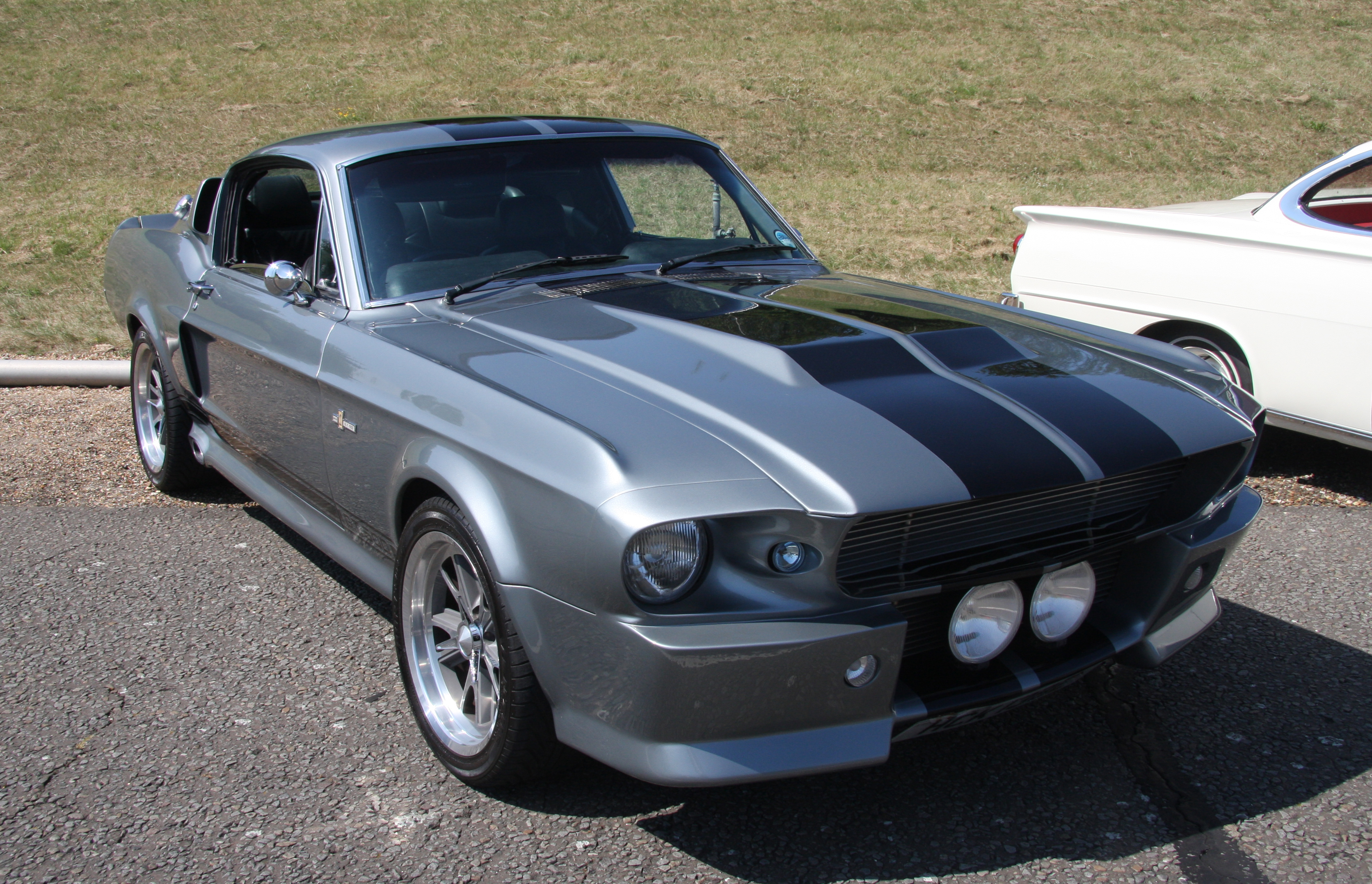 Mill Auto Conversions - EM500R Ford Mustang GT500 replica. It is a Ford Sierra Sapphire underneath.